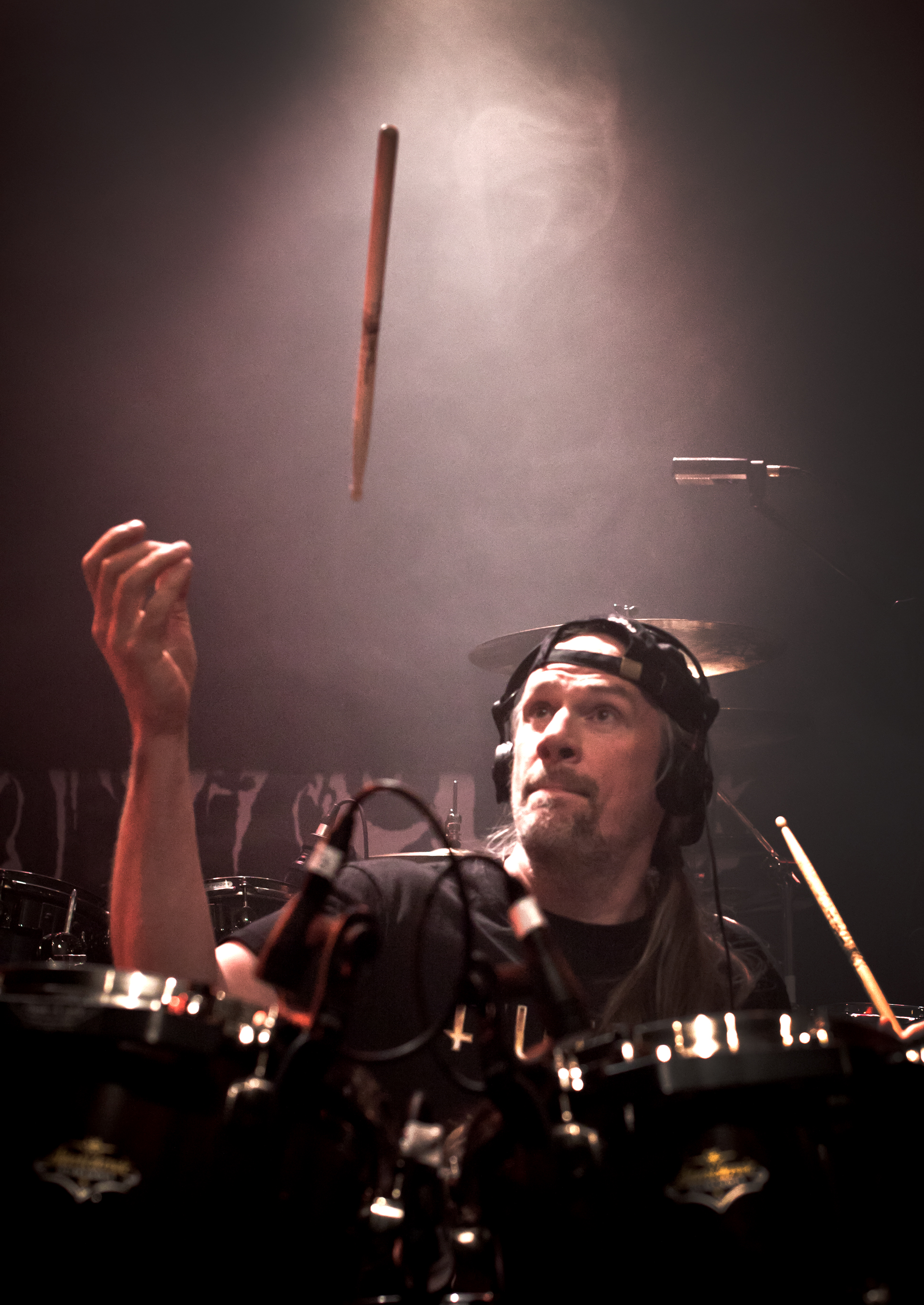 Anders Johansson live.